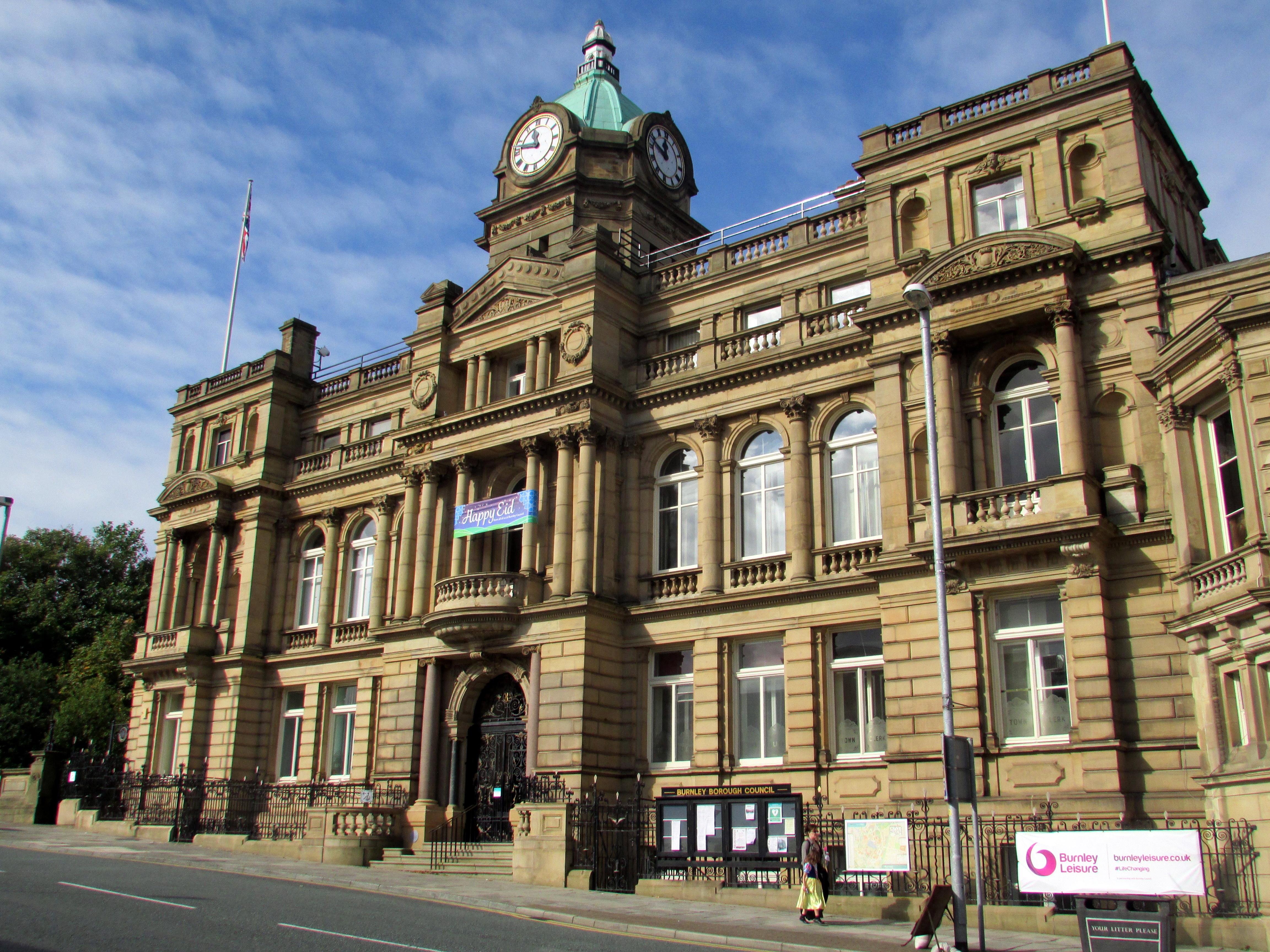 Burnley Town Hall, Manchester Road, Burnley. Designed by Holtom & Fox of Dewsbury and completed in 1888. It originally incorporated a police station, Magistrate's Court and public baths (the latter demolished in 1975).